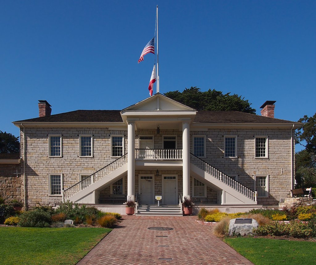 Colton Hall, Monterey, California, USA. A long-serving public building that hosted the first California state constitutional convention in 1849; now contains a city-owned museum. Viewed from the east-southeast.